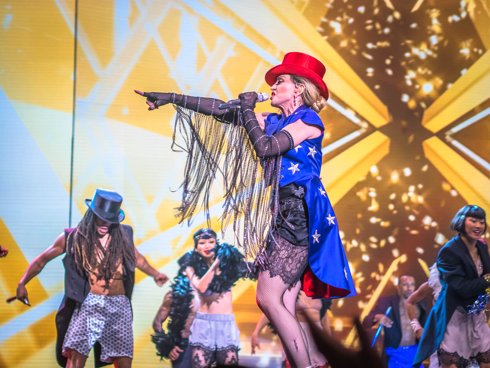 Rebel Heart Tour